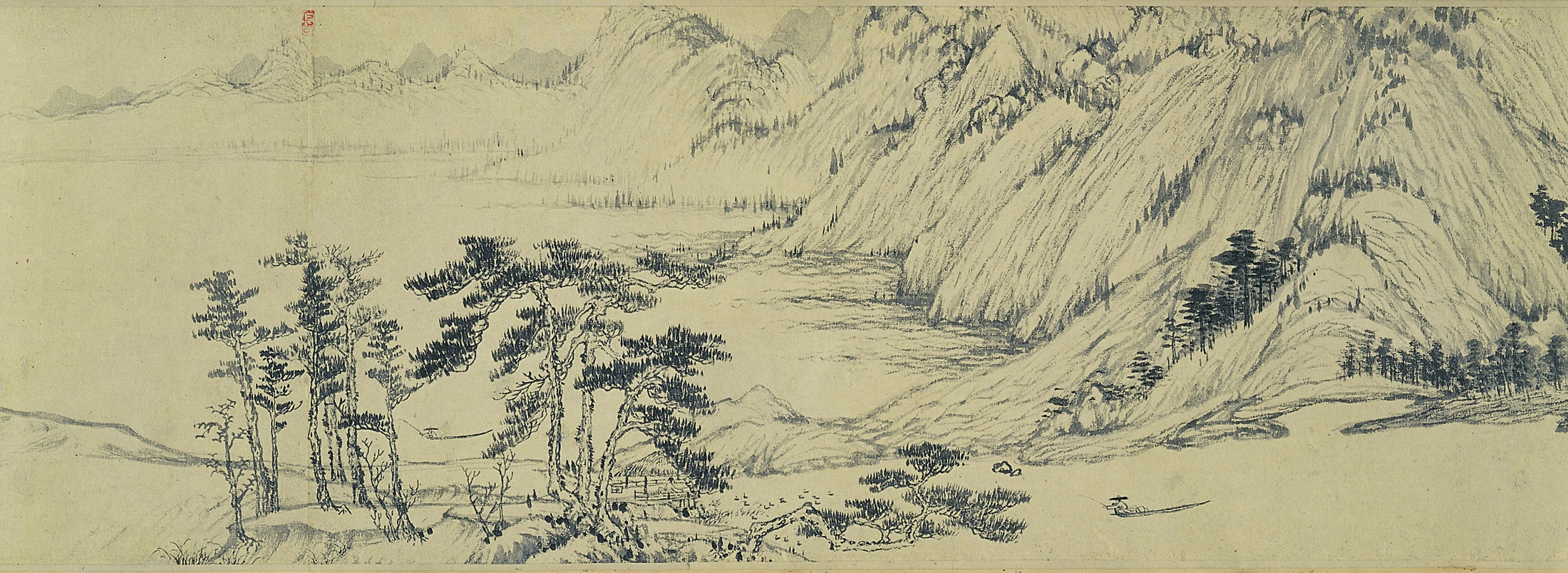 Huang_Gongwang._Dwelling_in_the_Fuchun_Mountains._detail._National_Palace_Museum,_Taipei.